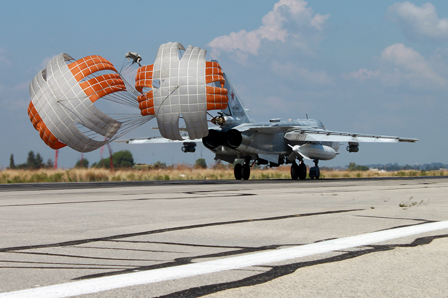 Russian military aircraft at Latakia, Syria